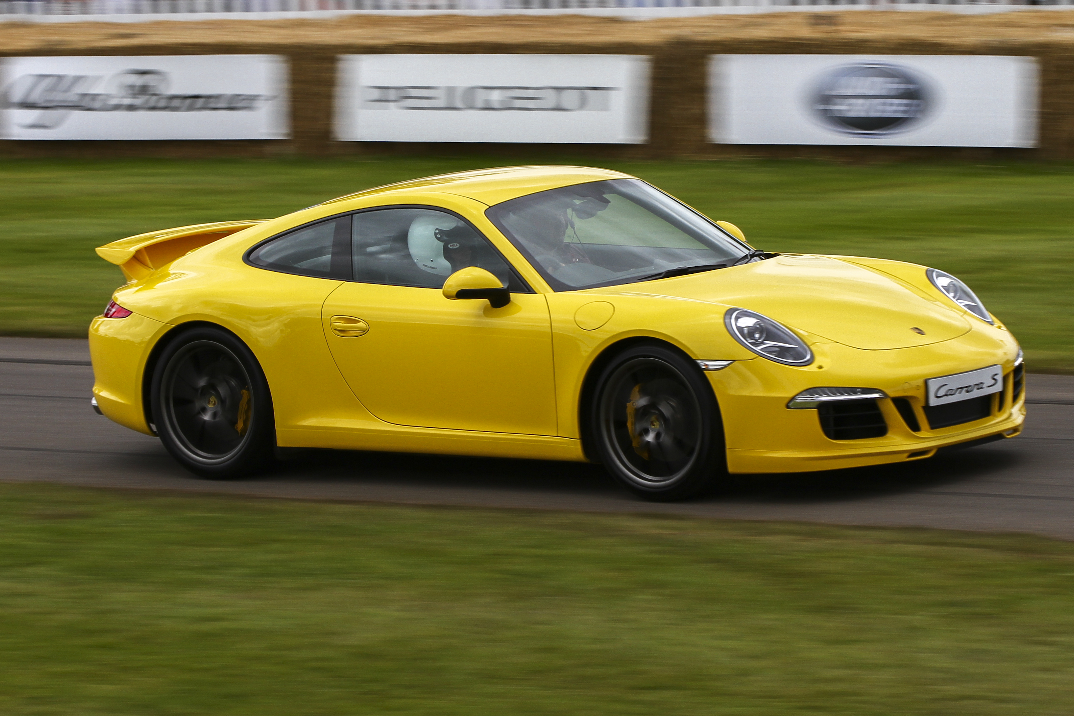 Porsche 991 Carrera S coupe Porsche Exclusive at the Goodwood FoS 2012.